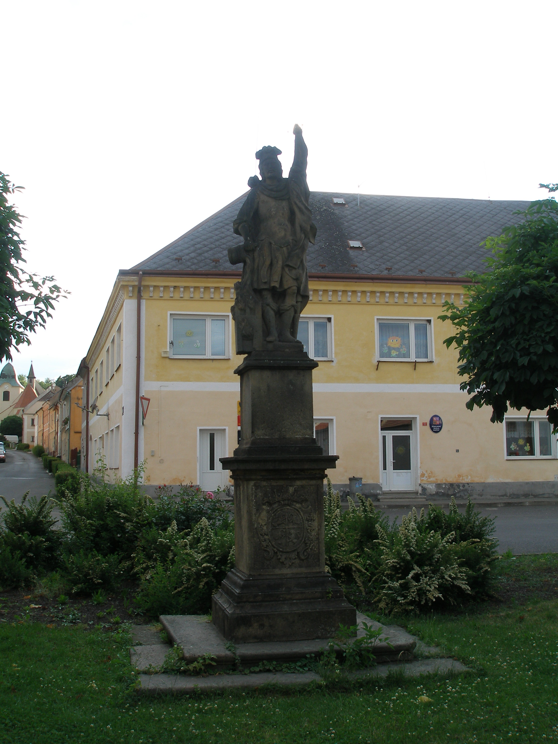 Saint Florian statue on the square in Mašťov